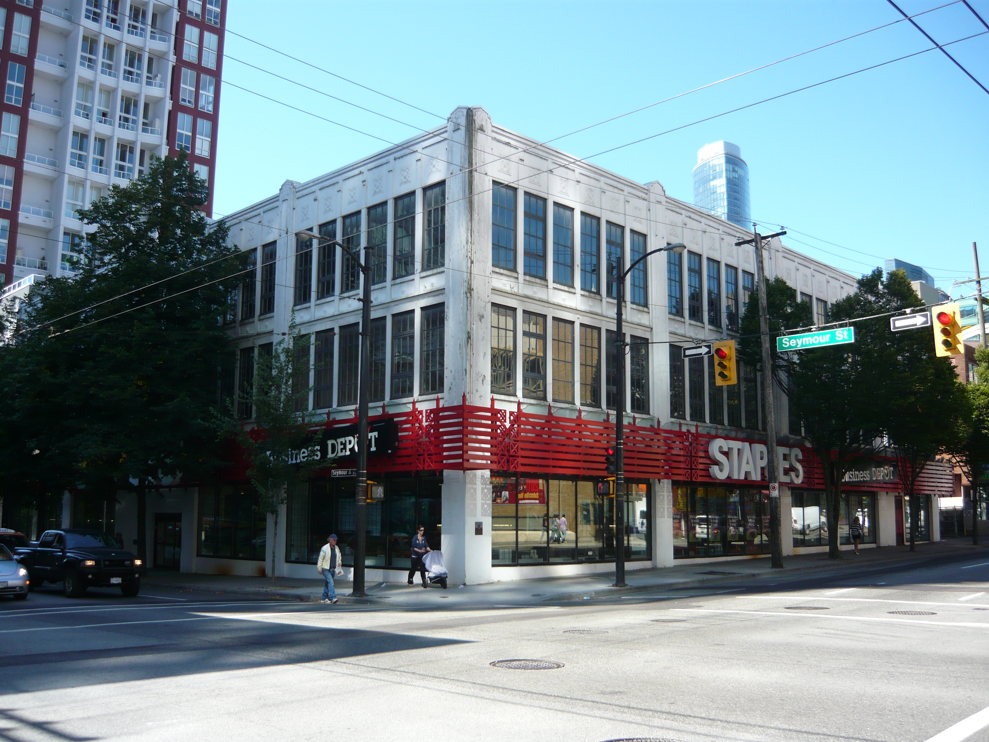 Vancouver Motors (Dominion Motors), 901 Seymour Street (at Smithe Street), Vancouver, British Columbia, Canada. Currently "Staples" office supply store. Built 1925. Architects: Townley and Matheson.